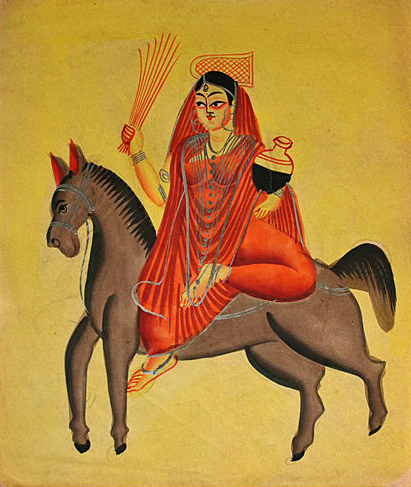 Shitala, Kalighat painting